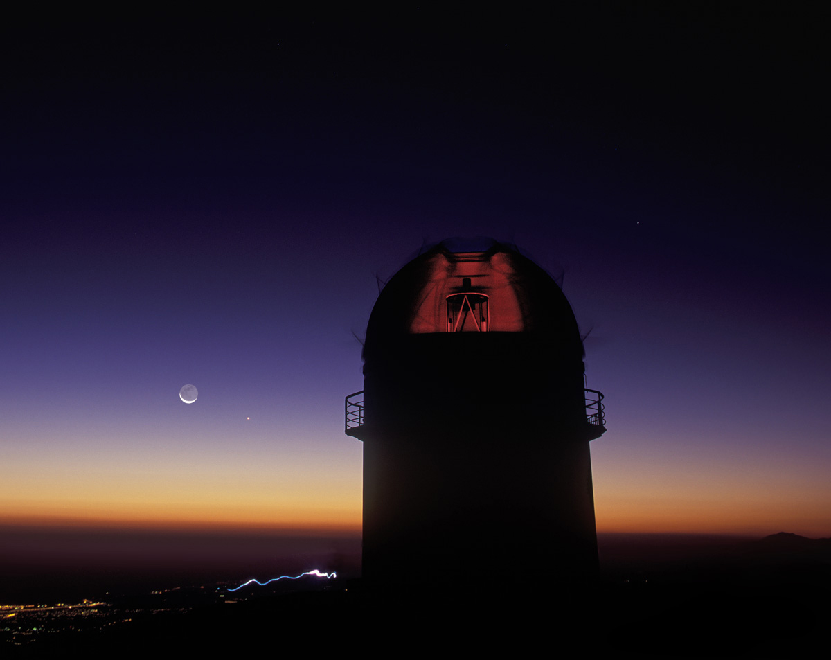 Dawn in Skinakas Observatory (Crete-Greece)